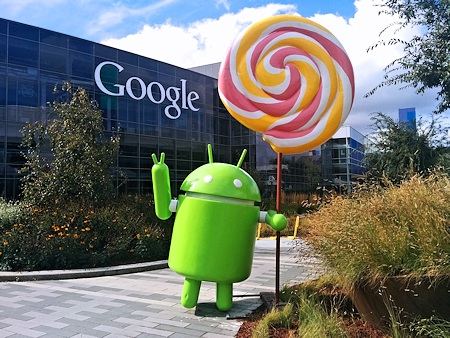 Android robot logo version Lollipop (Android 5.0)